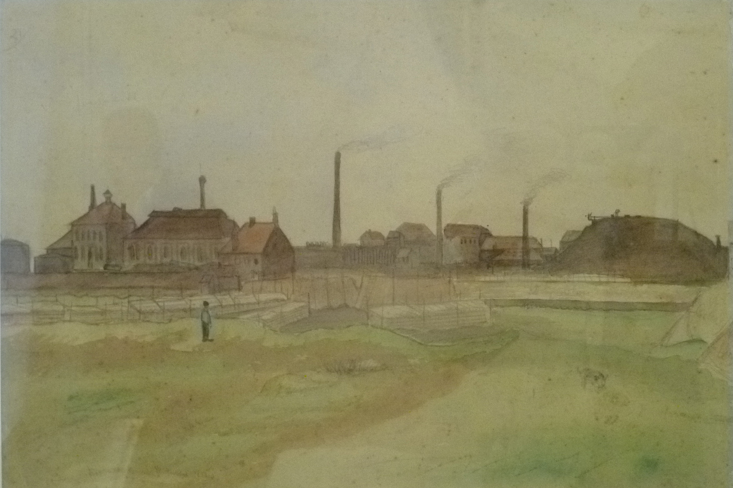 Coke Factory in Flénu (in the Borinage)